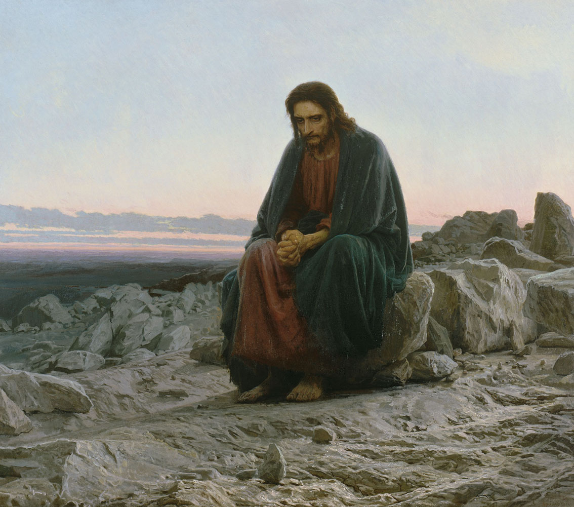 Christ in the desert